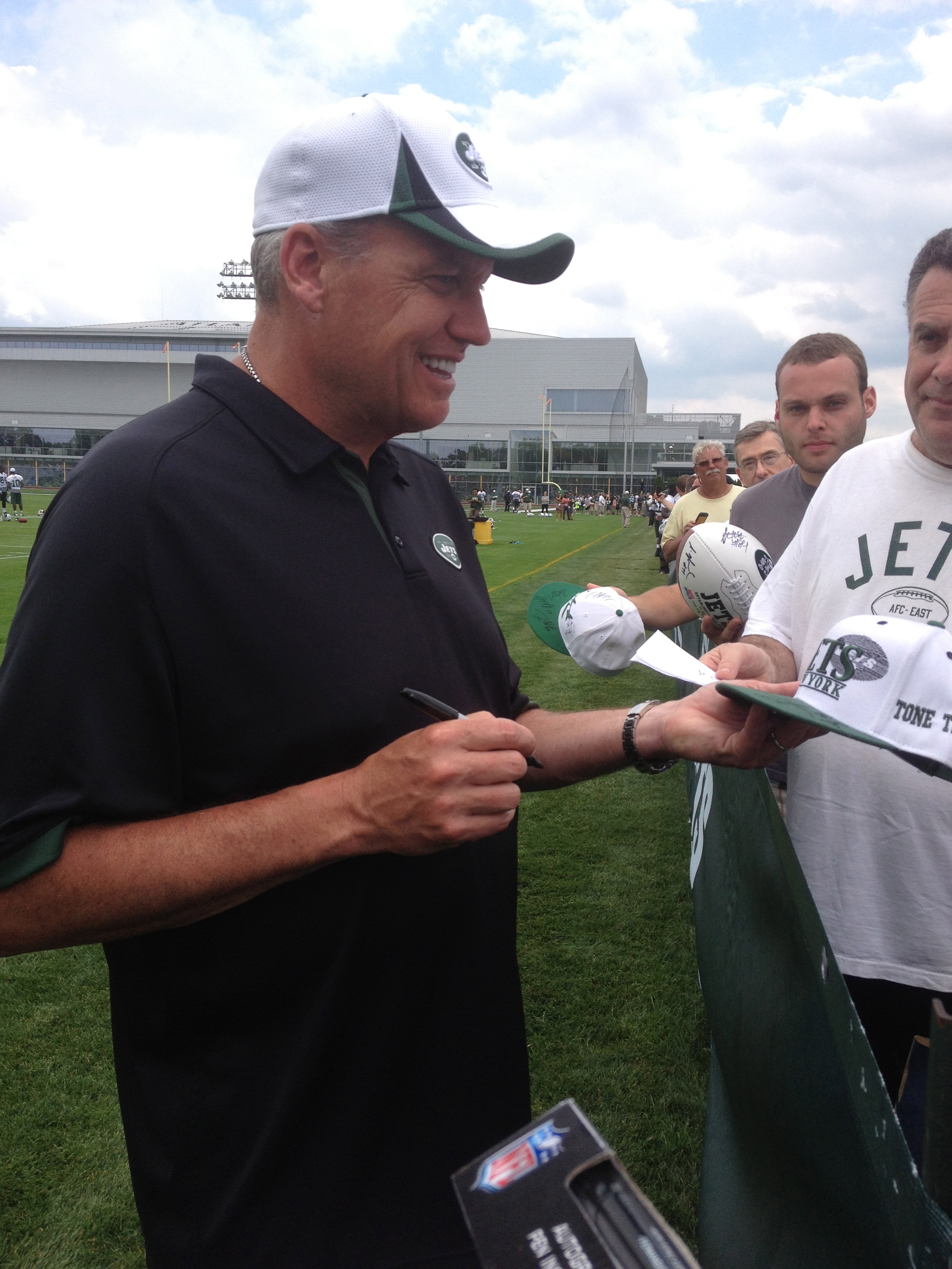 Rex Ryan signing autographs at New York Jets Mini Camp in Florham Park, NJ, on June 11, 2013.